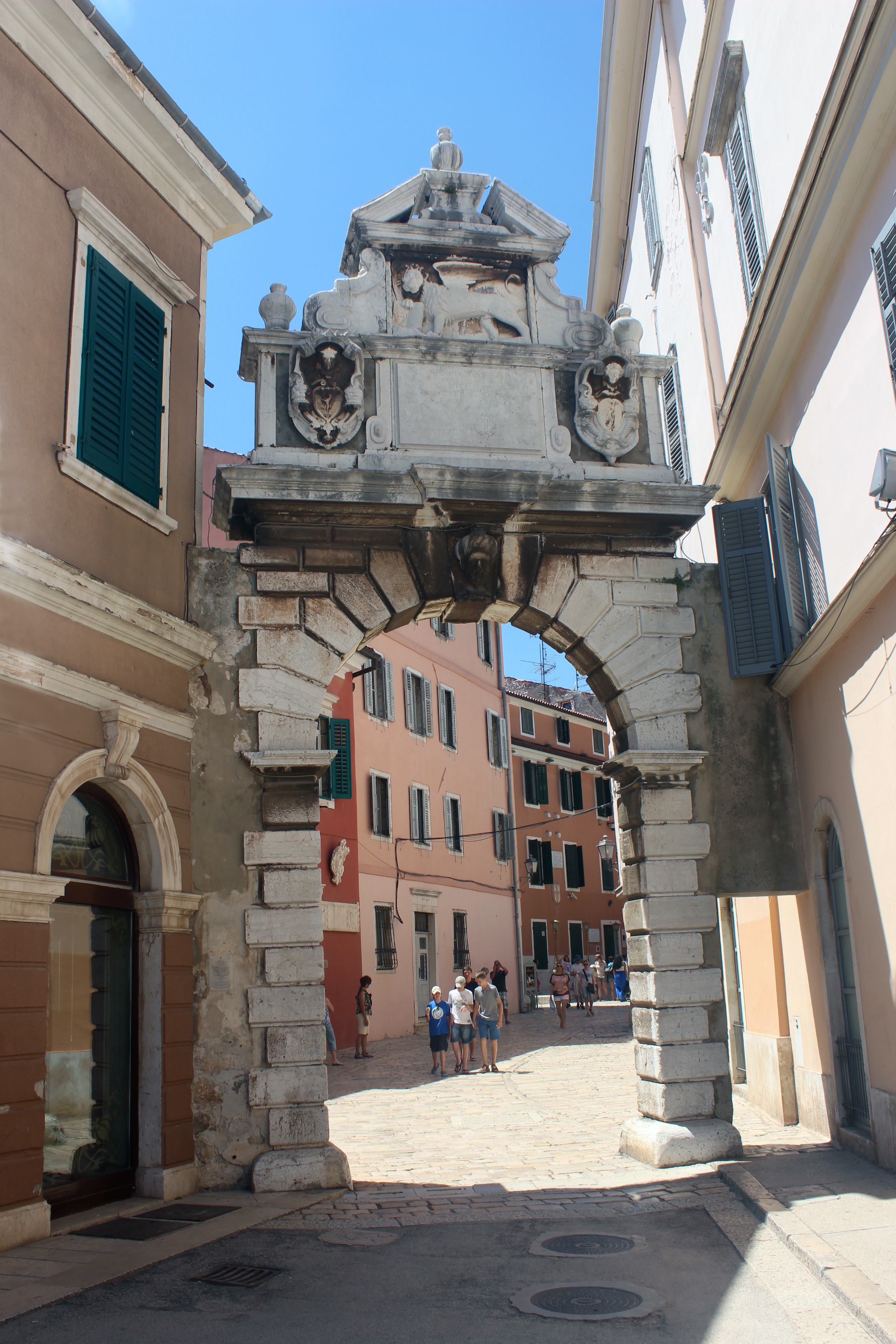 Balbi gate (Vrata Balbi), 1680, in Rovinj, Croatia